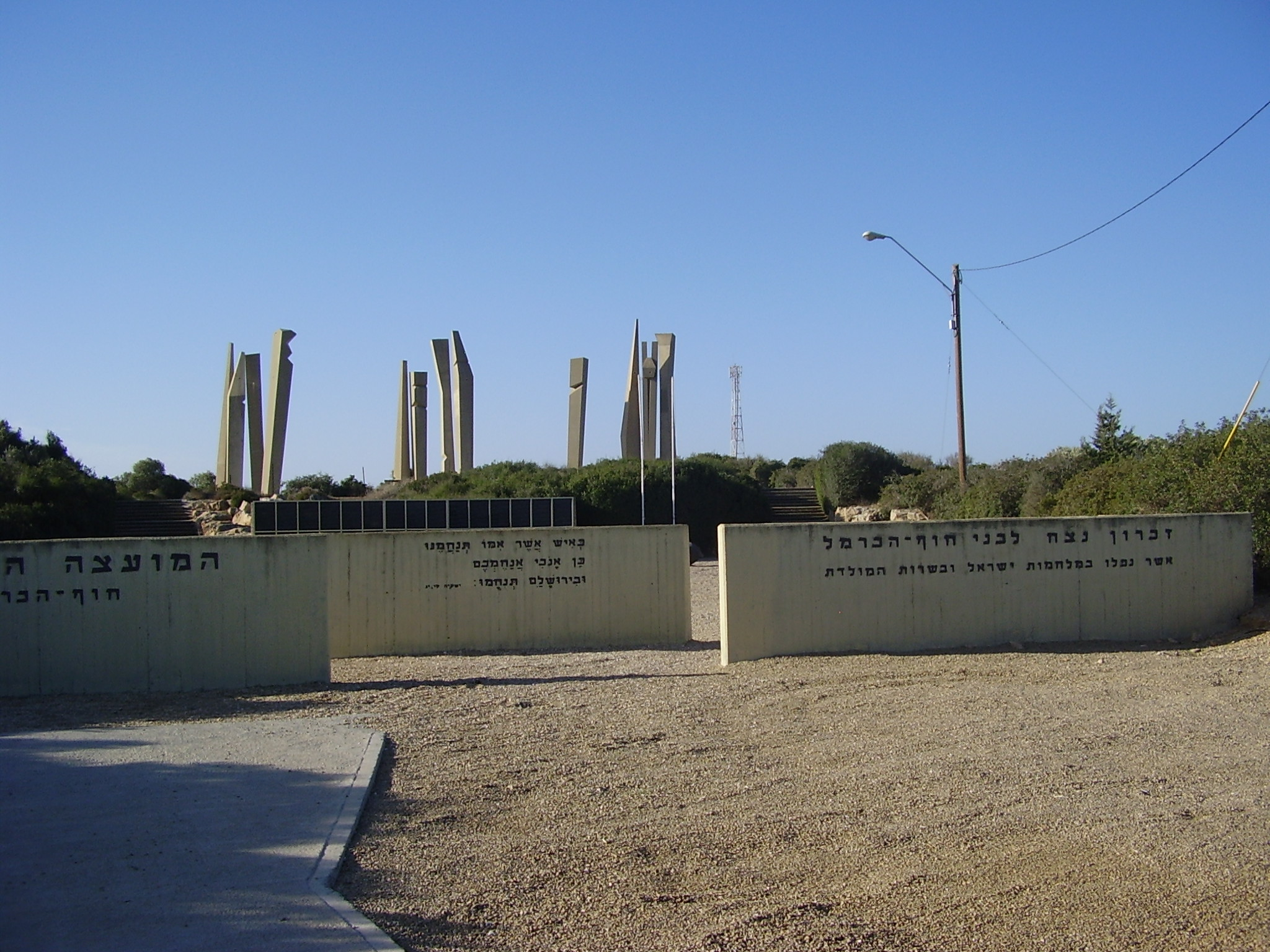 war memorial in atlil